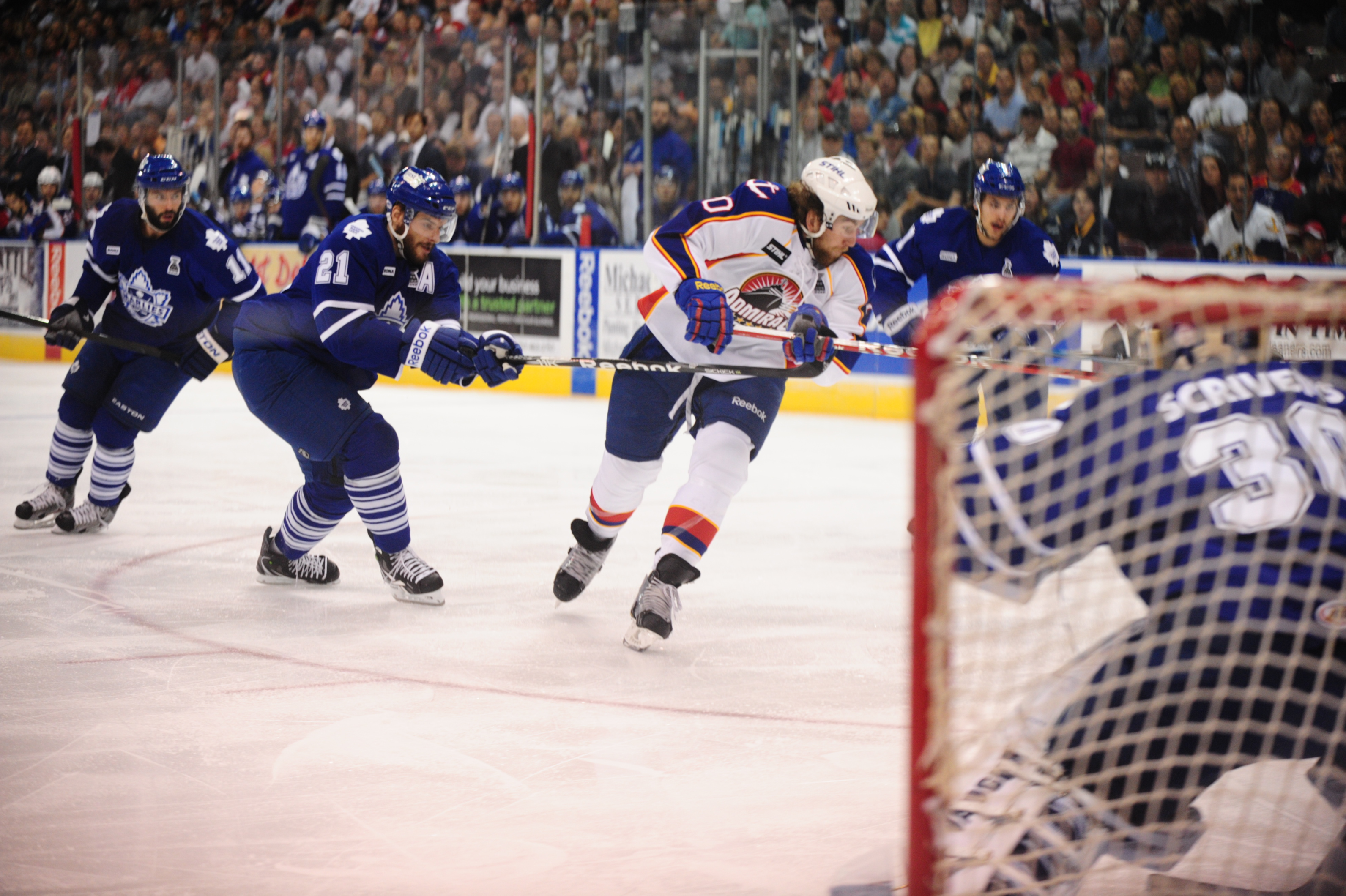 Calder Cup Finals Game 1 American Hockey League (AHL) 2012 Calder Cup Finals (Game 1) Toronto Marlies vs. Norfolk Admirals, Norfolk, VA Taken on June 1, 2012.